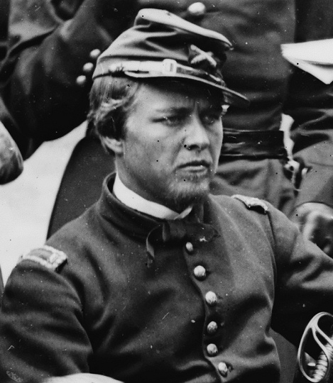 First Lieutenant Peter Conover Hains, June 1862.